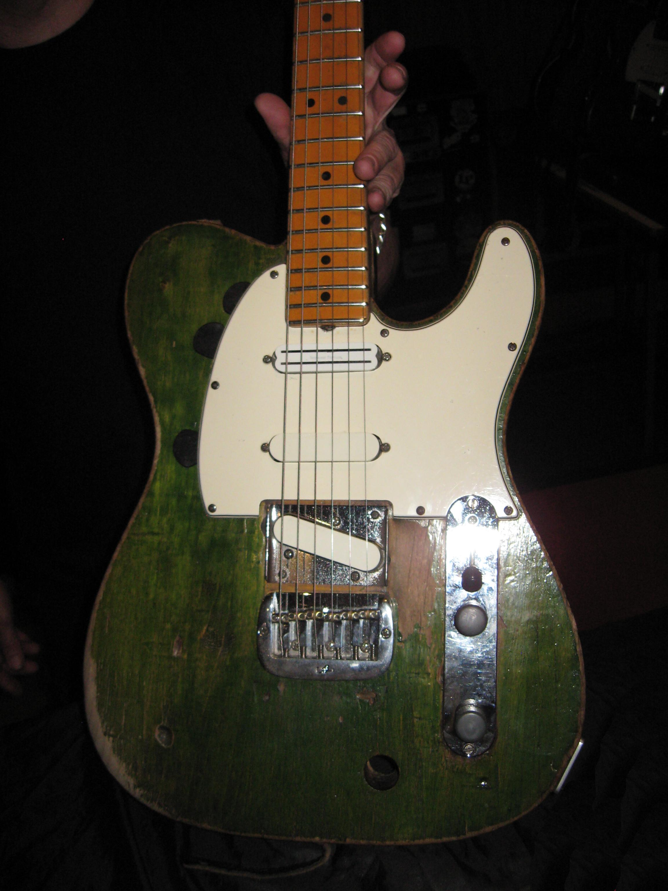 Francis Rossi's Green 1957 Fender Telecaster body